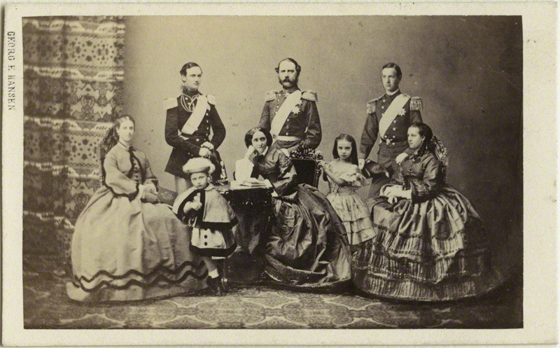 Christian IX, King of Denmark and his family by Georg Emil Hansen, albumen carte-de-visite photomontage, 1862